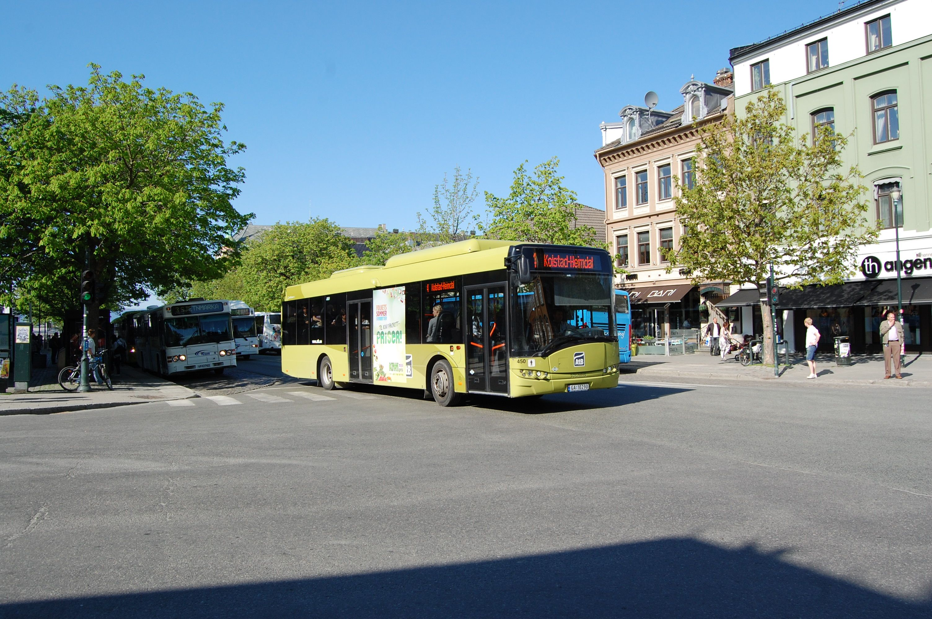 Solaris Urbino 12 LE CNG bus (#450) in trafick in Trondheim since summer of 2010. Built 2010, Nettbuss Trondheim AS operator (Ex Team Trafikk Trondheim).